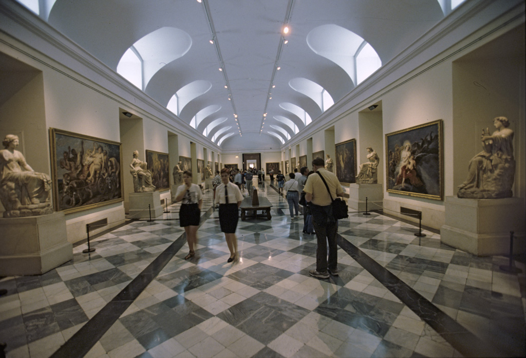 “Museo del Prado”. Museo del Prado.